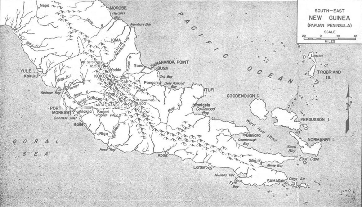 The Papuan Peninsula of New Guinea. From the book Papuan Campaign: The Buna-Sanananda Operation, Center Of Military History, United States Army, Washington, D.C., 1990 [1] Downloaded from [2]